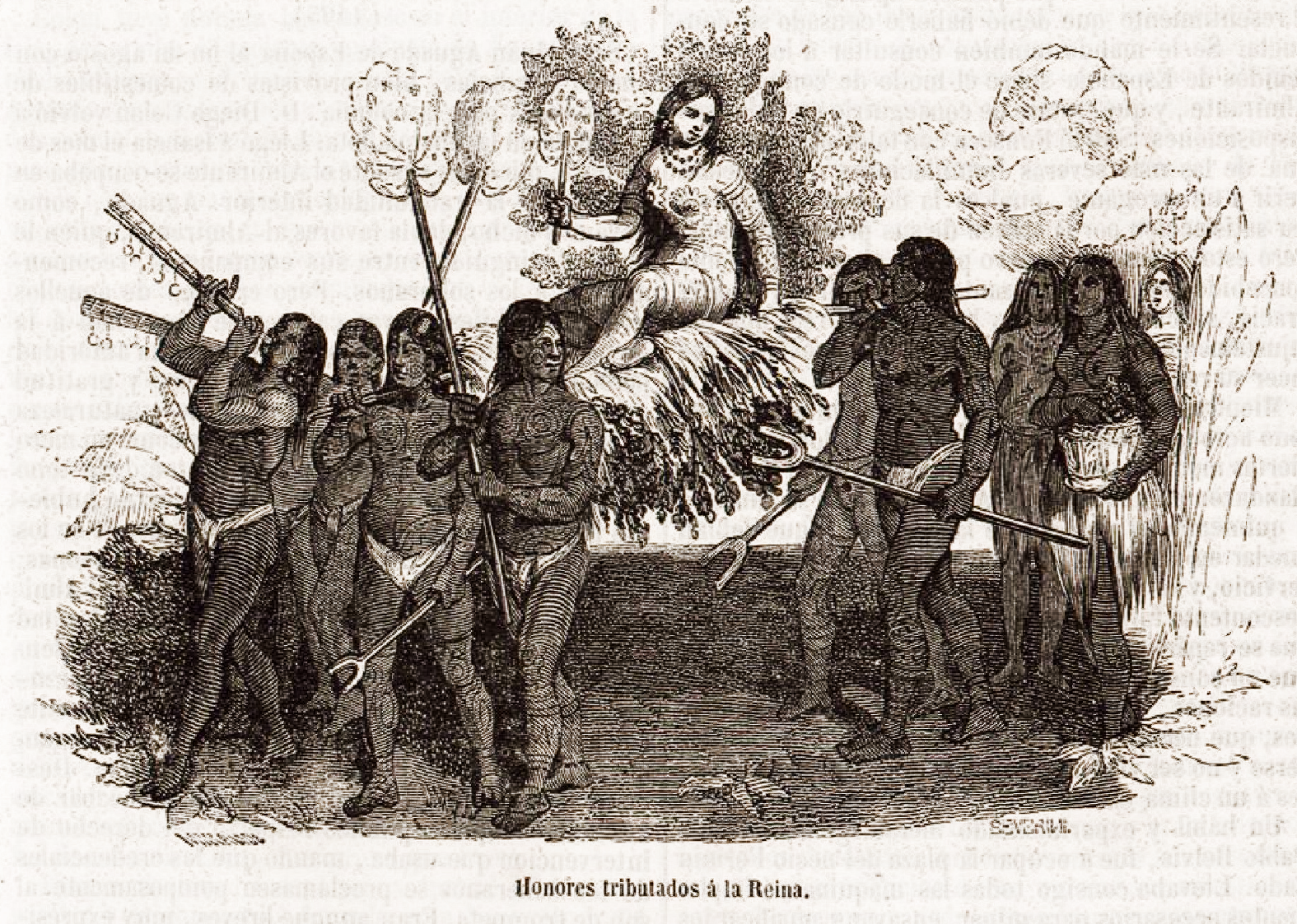 Honors to Queen Anacaona